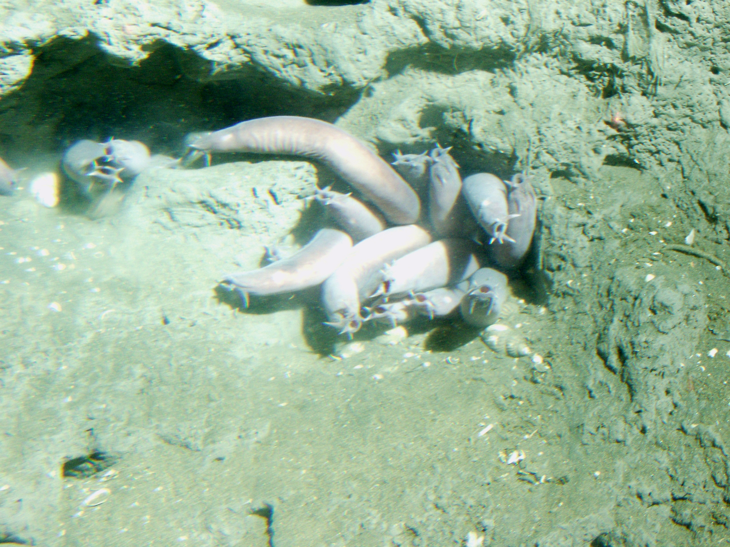 Pacific hagfish (Eptatretus stoutii) in a hole at 150 meters depth. Latitude 37 58 N., Longitude 123 27 W. California, Cordell Bank National Marine Sanctuary.